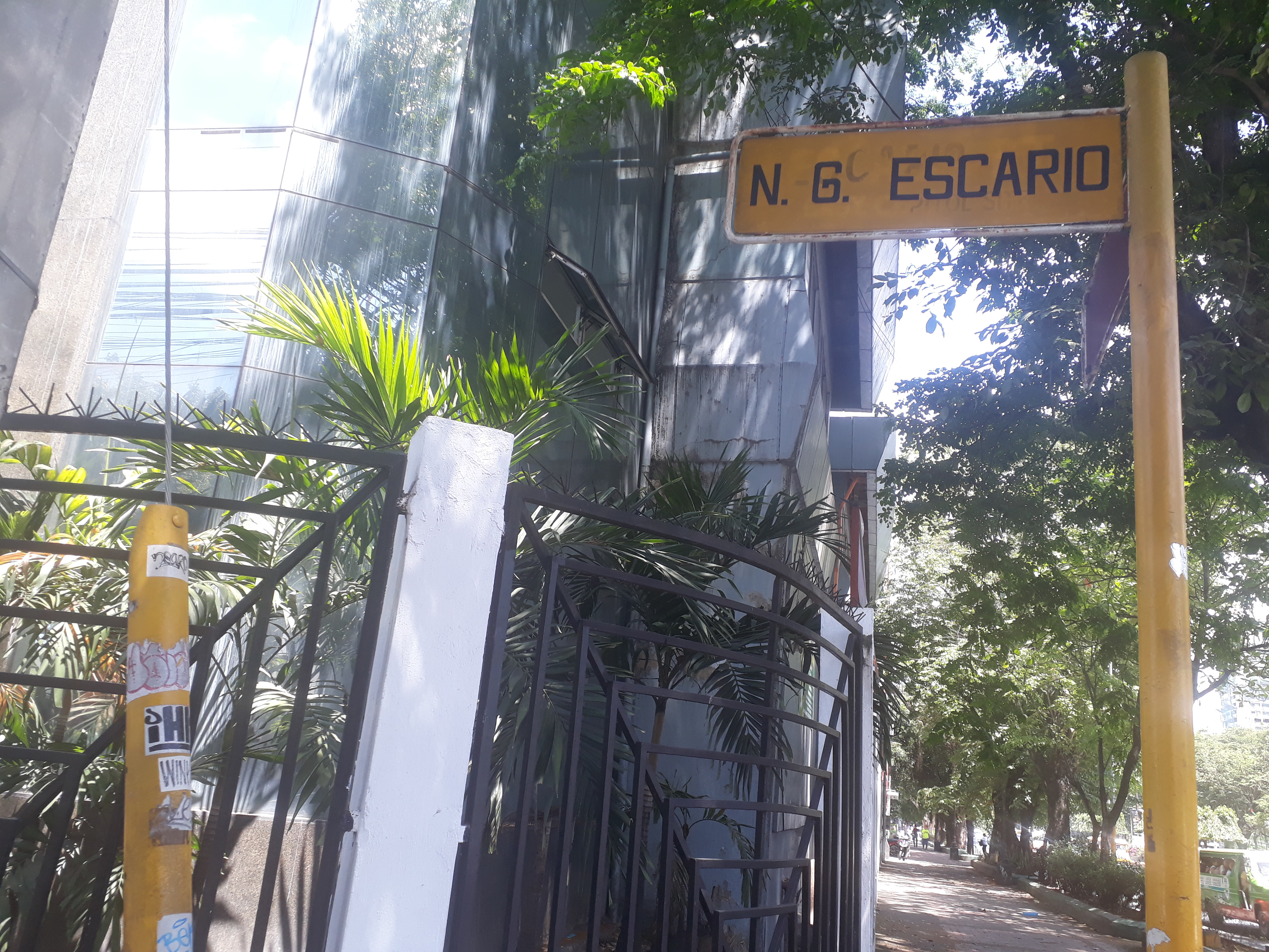 Nicolas Escario Street sign in honor of former legislator and founder of Cebu Institute of Technology University.